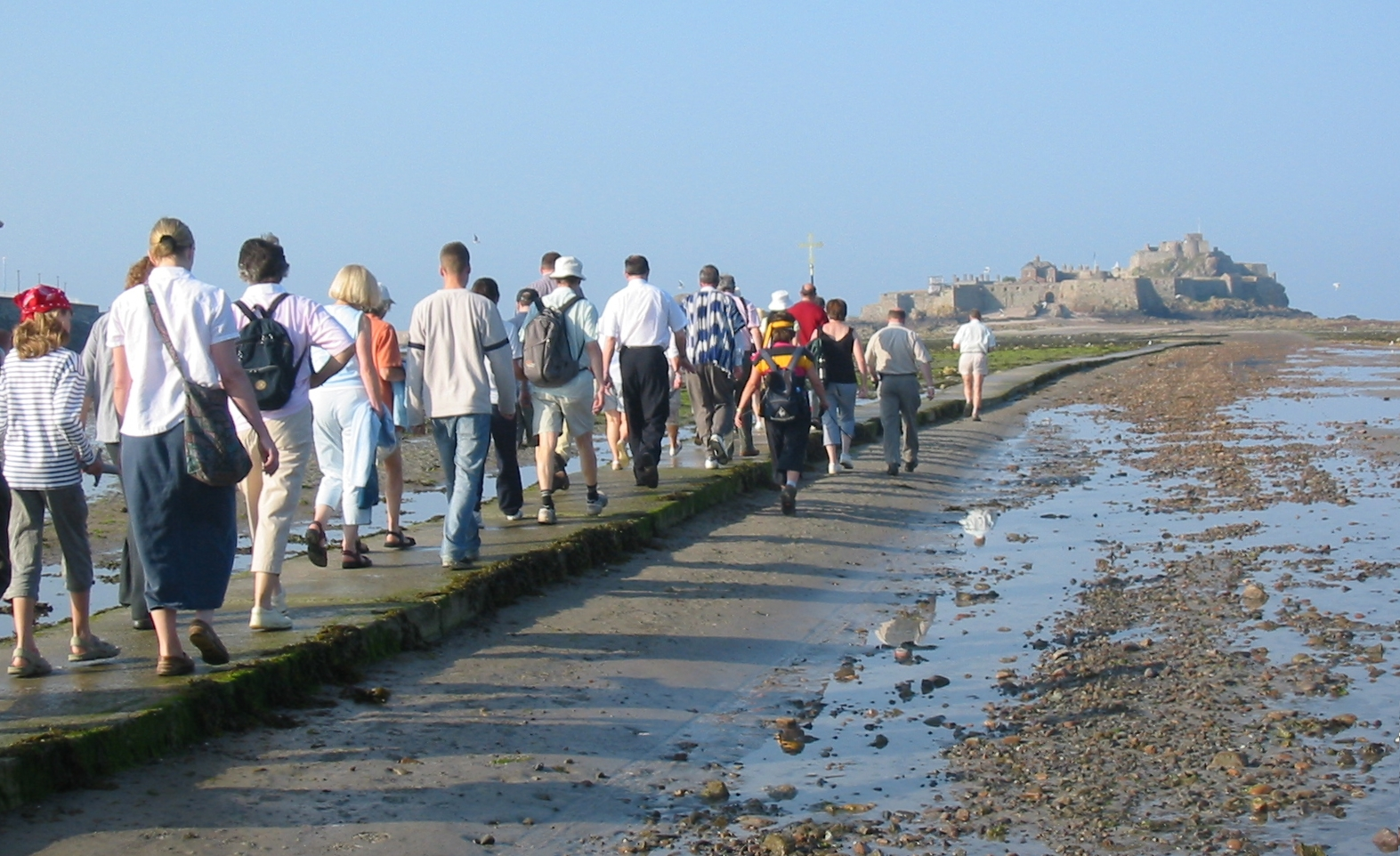 Pilgrimage to Hermitage of Saint Helier, St. Helier, Jersey, 17 July 2005. Pilgrims approaching Elizabeth Castle at low tide. Photo taken by Man vyi with Canon PowerShot A40 on 17/7/2005 Nrf: Lé Pont du Châté